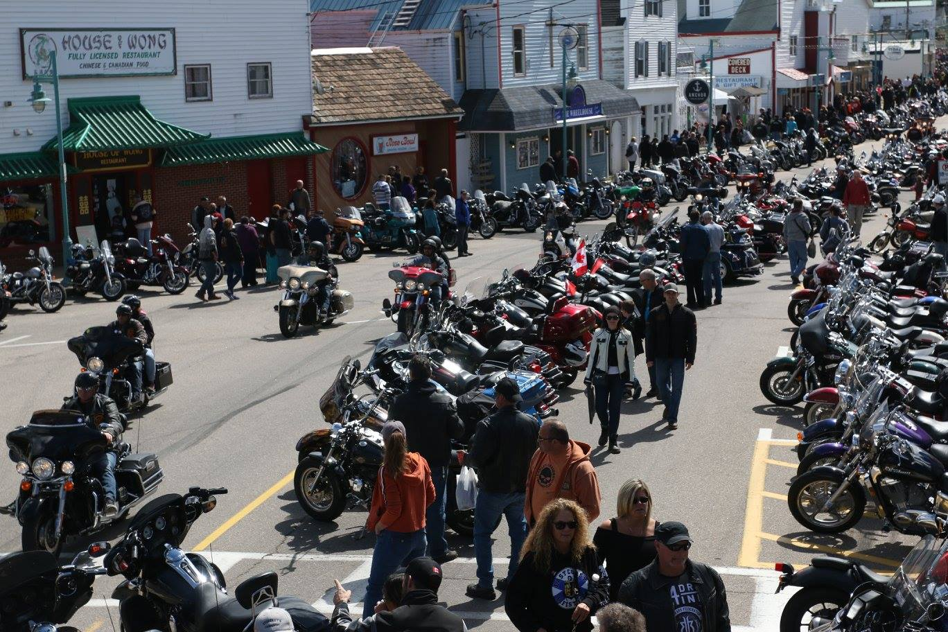 A short section of the visitors bikes along Water Street, Digby, Nova Scotia 2017